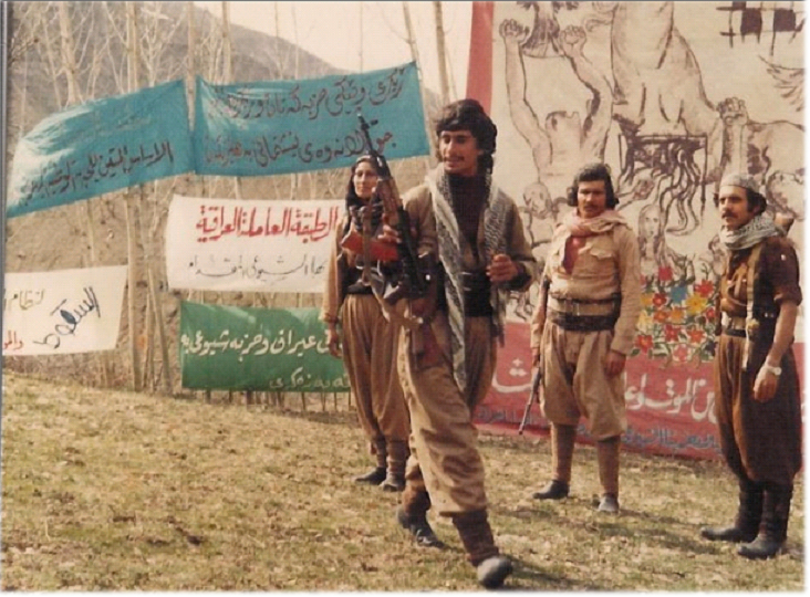 Partisans, northern Iraq, 1981